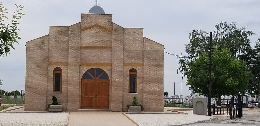 St. Joseph Chapel in Rakovski